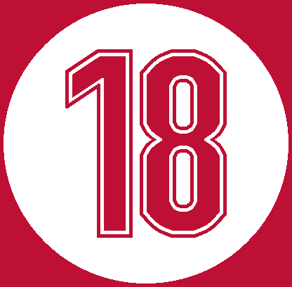 The number "18", retired for Ted Kluszewski by the Cincinnati Reds.